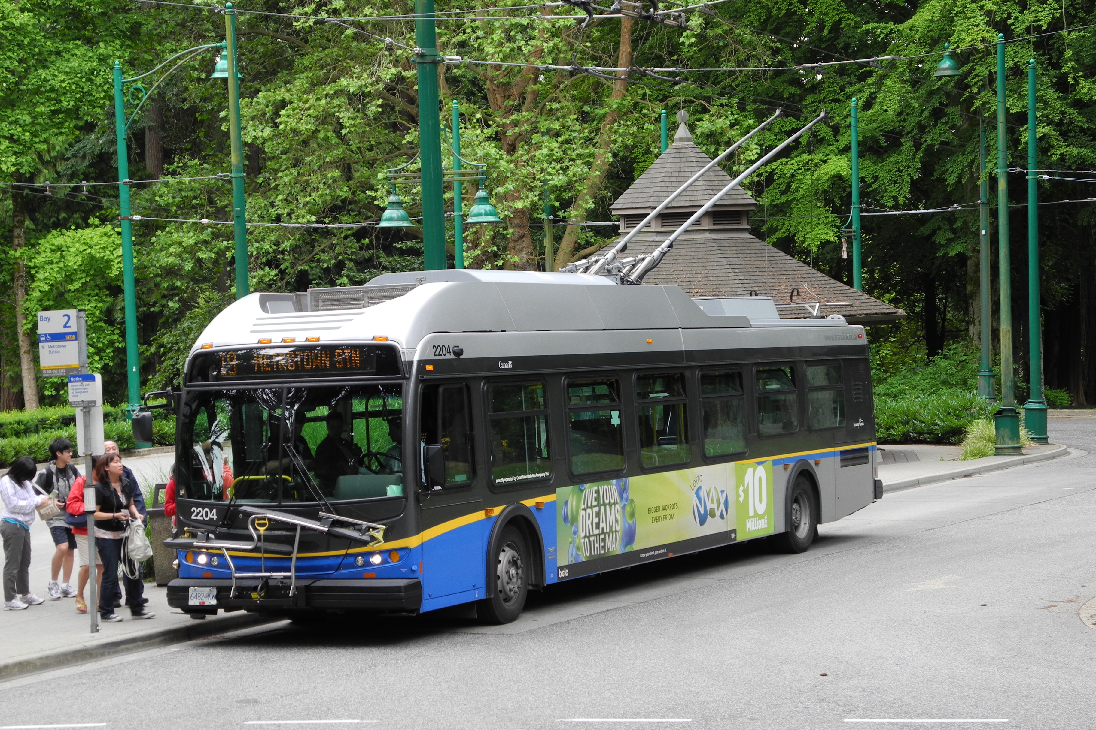 Stanley Park Loop - July 15, 2011